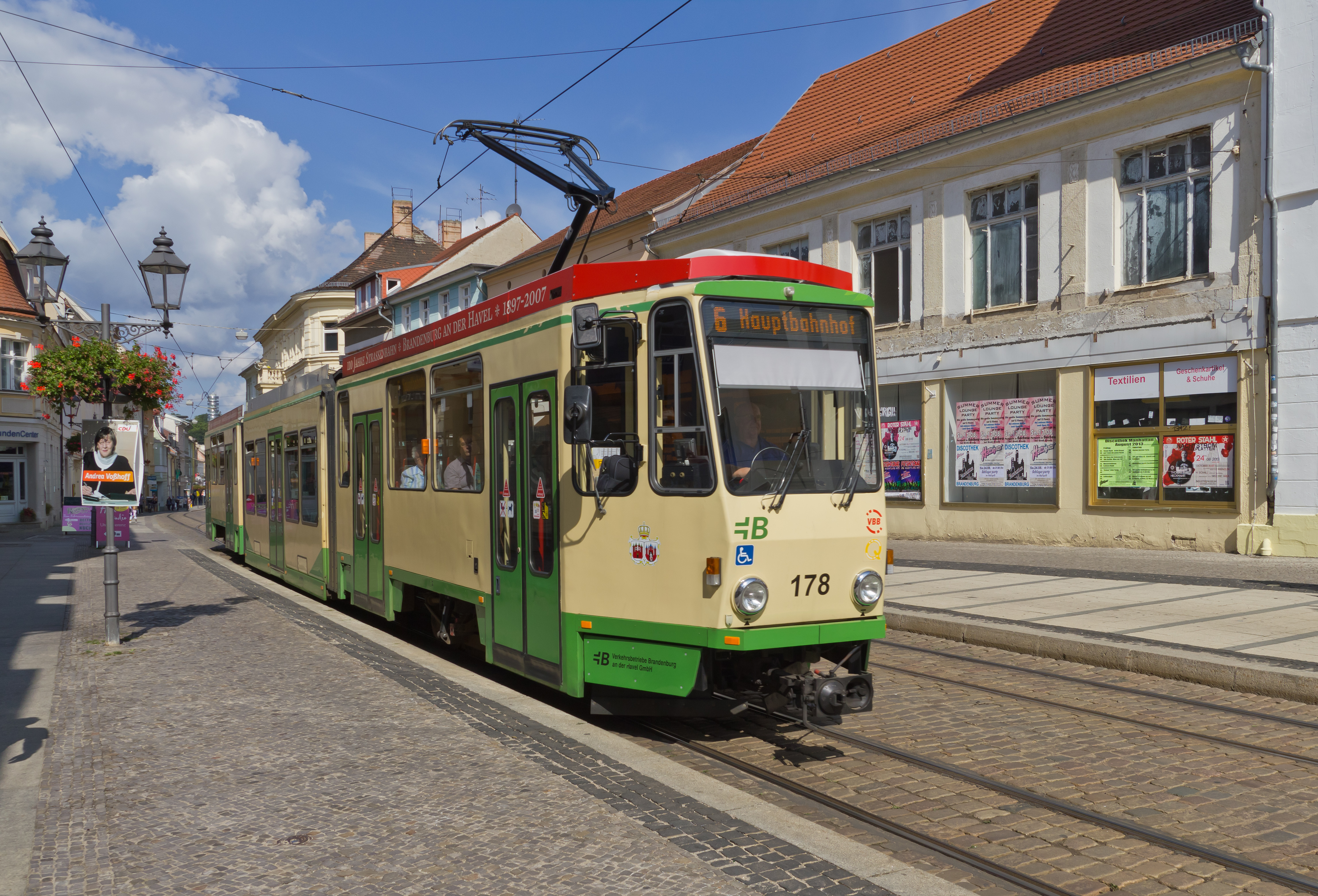 Tram in Brandenburg/Havel, Germany